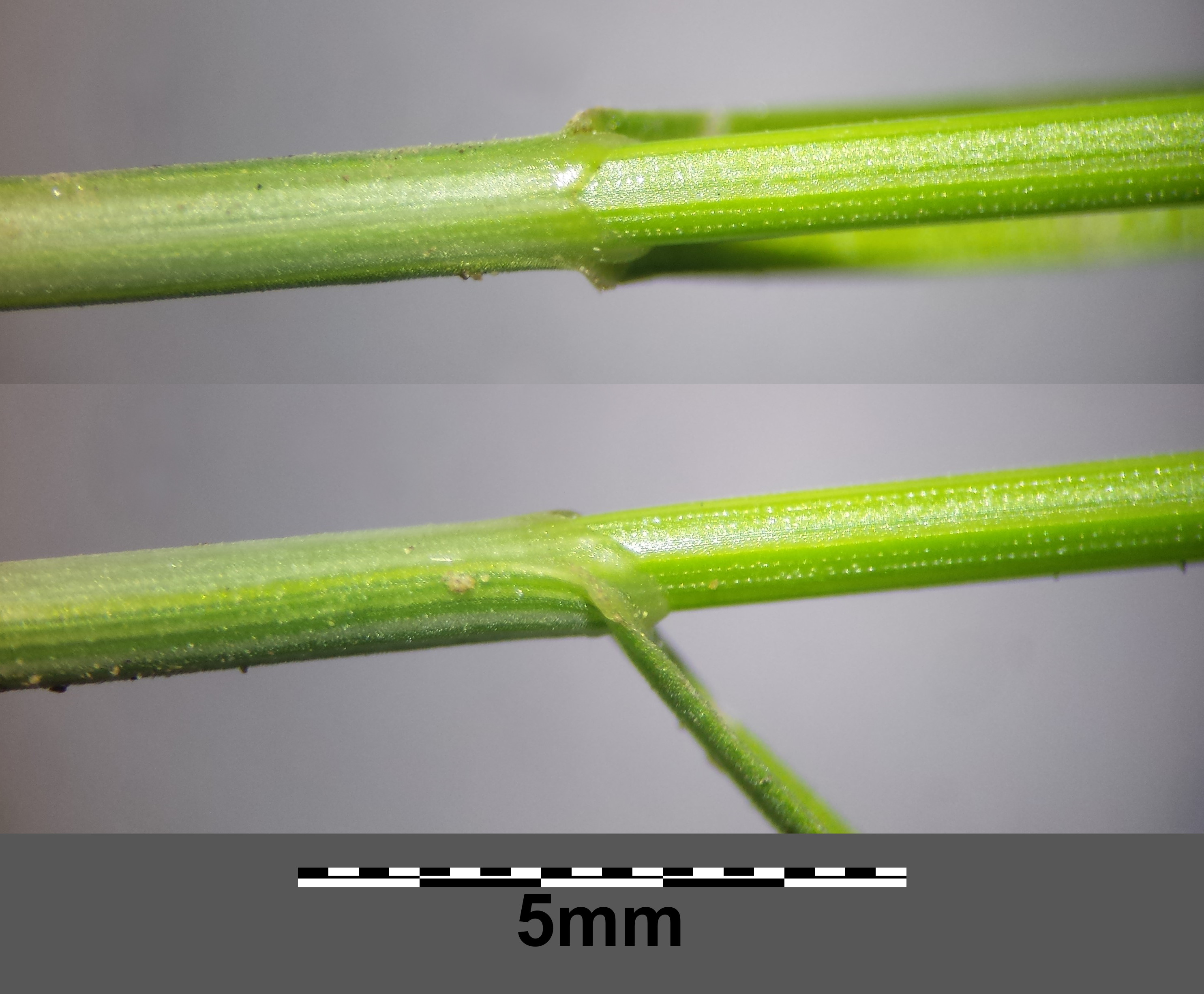 Stem with leaf sheath Taxonym: Carex praecox ss Fischer et al. EfÖLS 2008 ISBN 978-3-85474-187-9 Location: Altenbergen to the North of Ladendorf, district Mistelbach, Lower Austria - ca. 290 m a.s.l. Habitat: slope